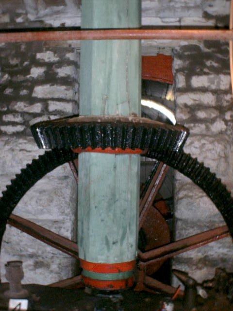 Main drive in Heron Corn Mill, Beetham, Cumbria. The main vertical shaft meshes with the vertically placed Pit Wheel, mounted on a horizontal shaft to which the main water wheel is attached.